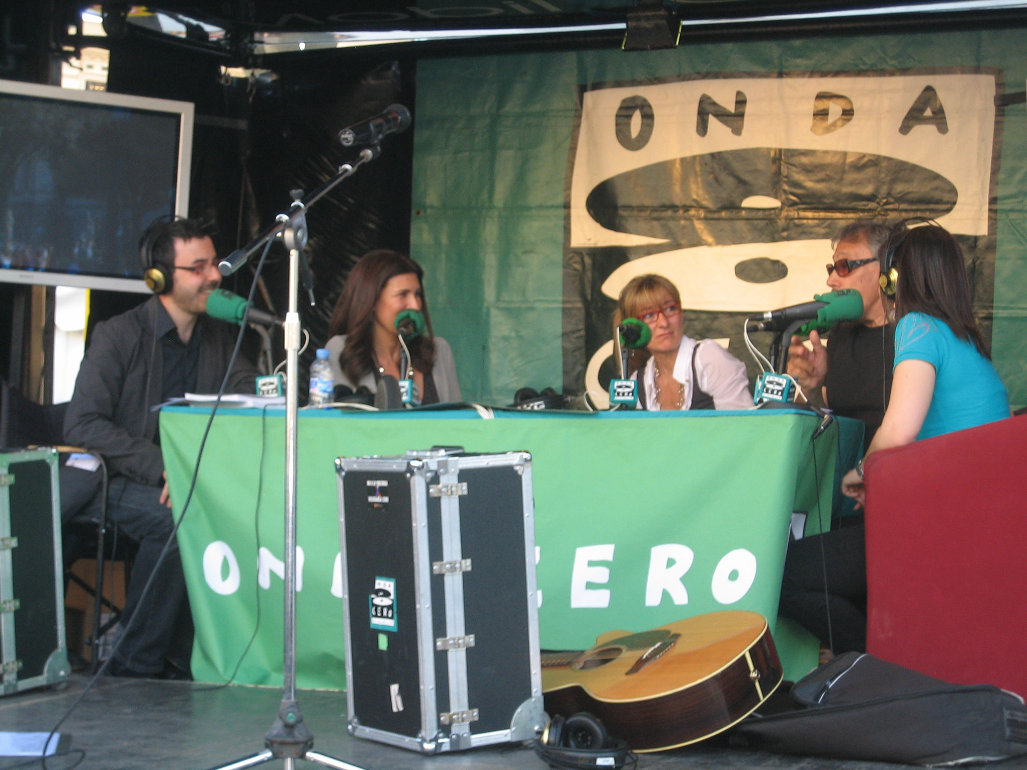 Onda Cero studio in Catalunya Square (Barcelona) during Sant Jordi 2009